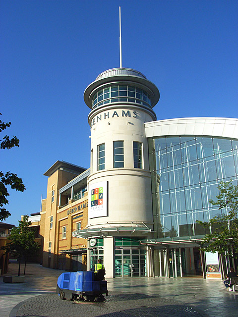 Festival Place, Basingstoke A man making it spick and span ready for the Sunday shoppers.